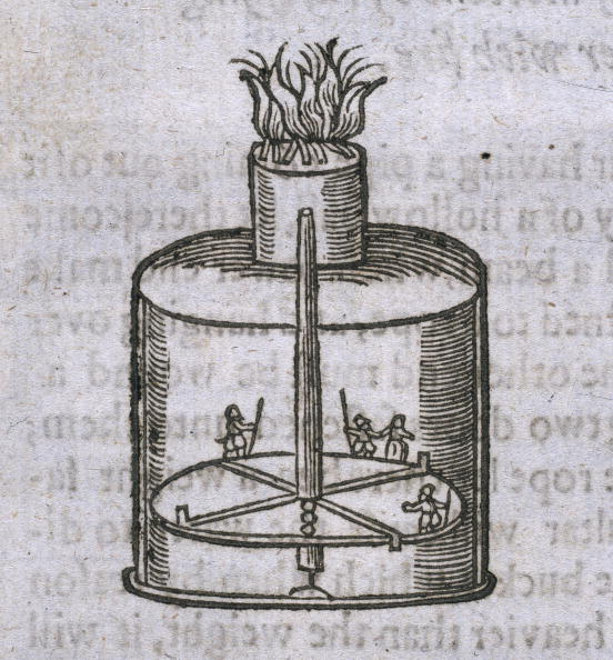 Zoetrope-like animation device in John Bate's 'The Mysteries of Nature and Art' (1635)